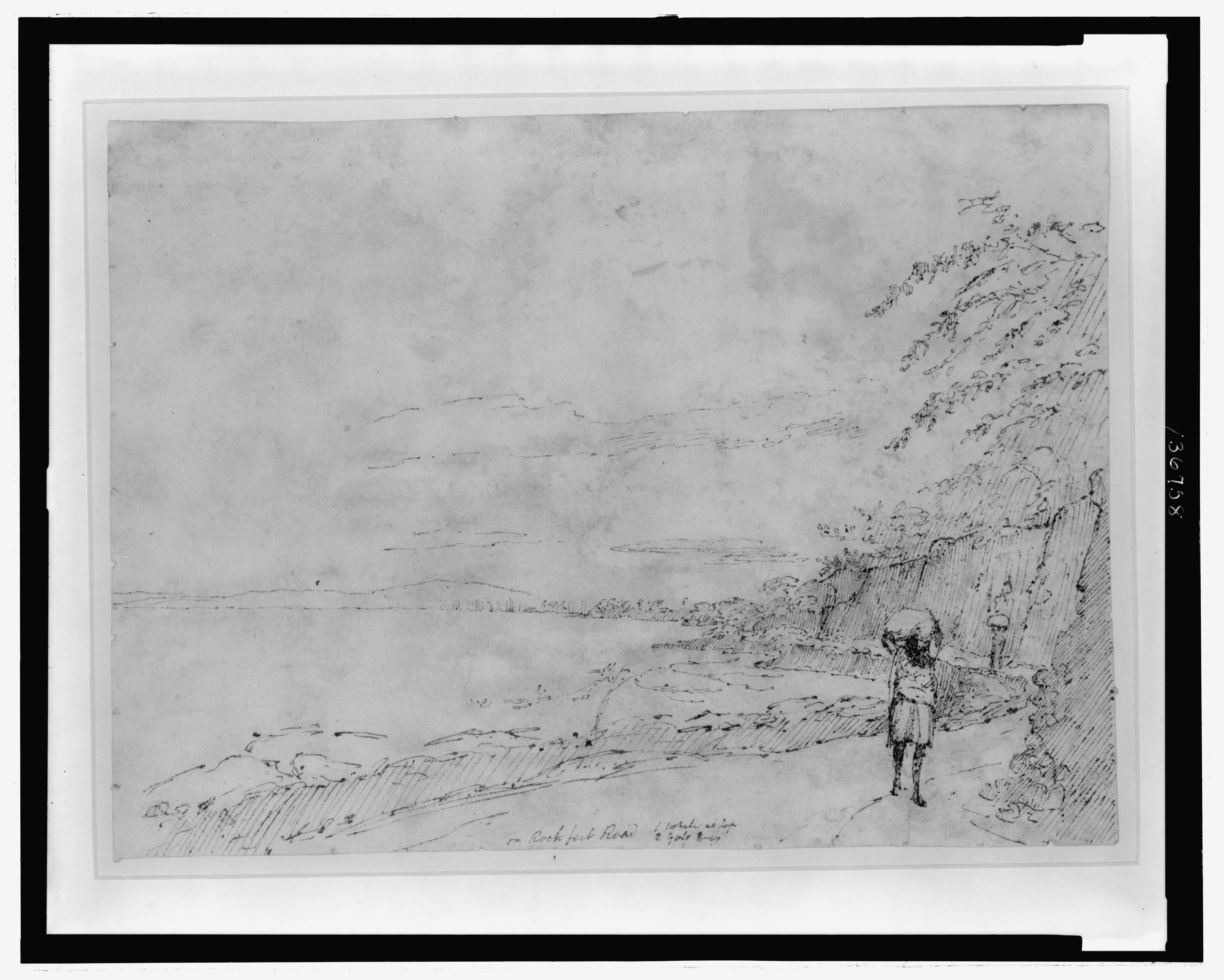 Title: On the Rockfort Road Abstract/medium: 1 drawing : ink.